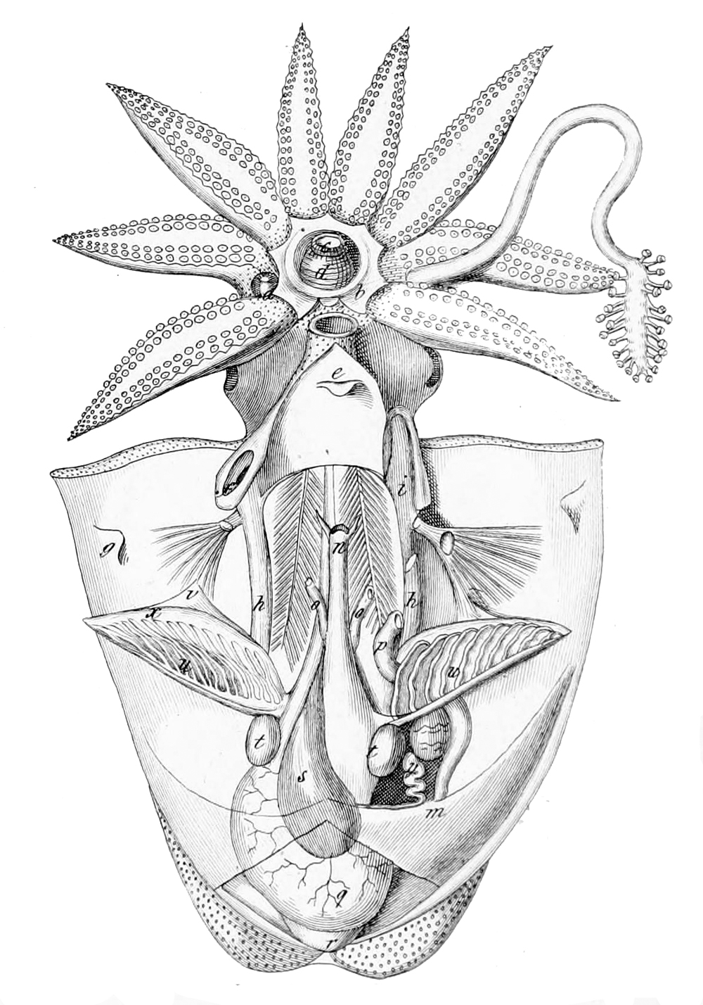 Sepia officinalis